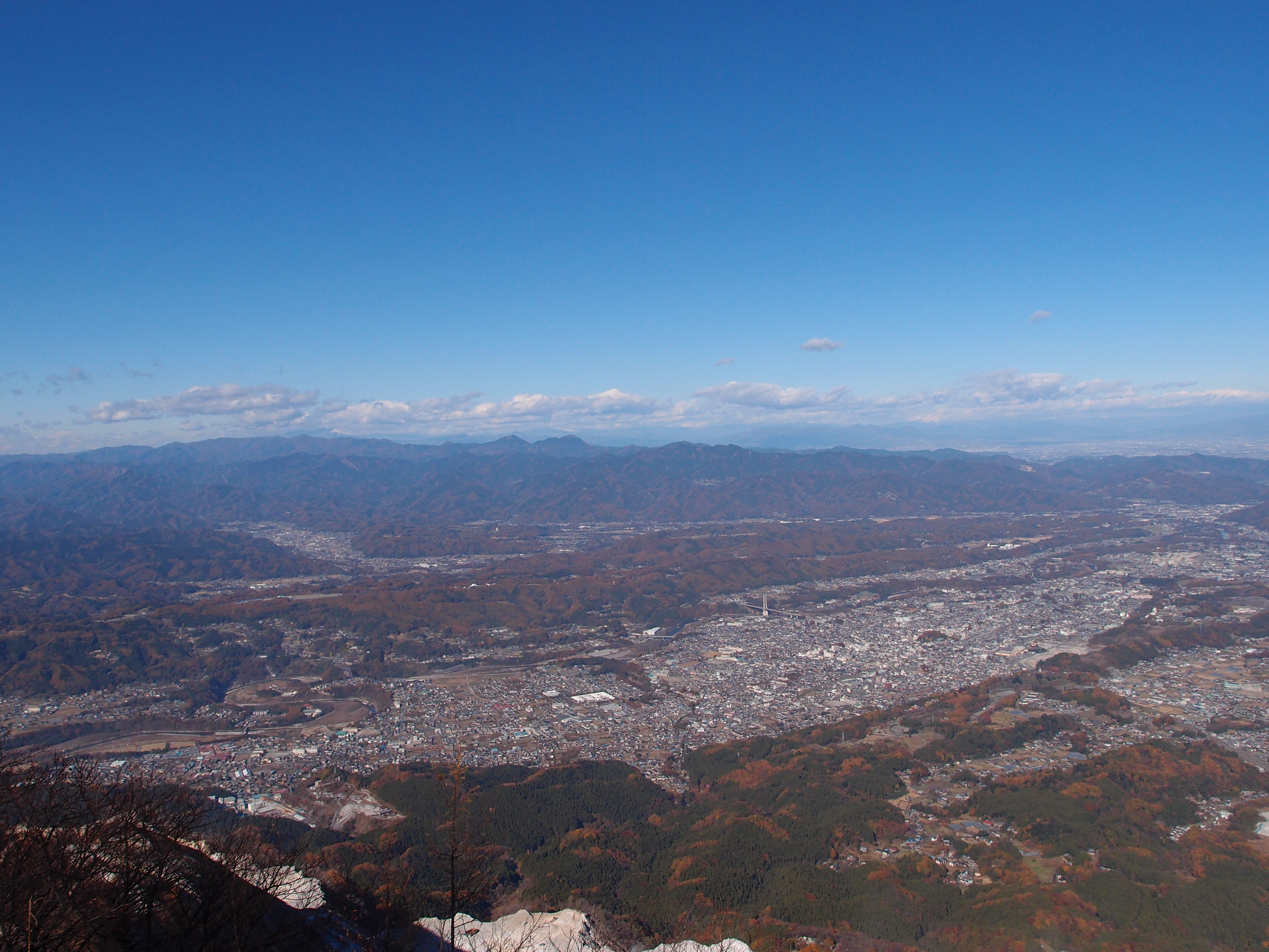 Looking NNW from Mount Buko in Saitama Prefecture, Japan.